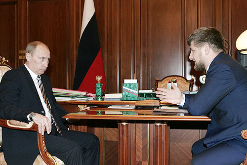 THE KREMLIN, MOSCOW. With the President of the Chechen Republic, Ramzan Kadrov.